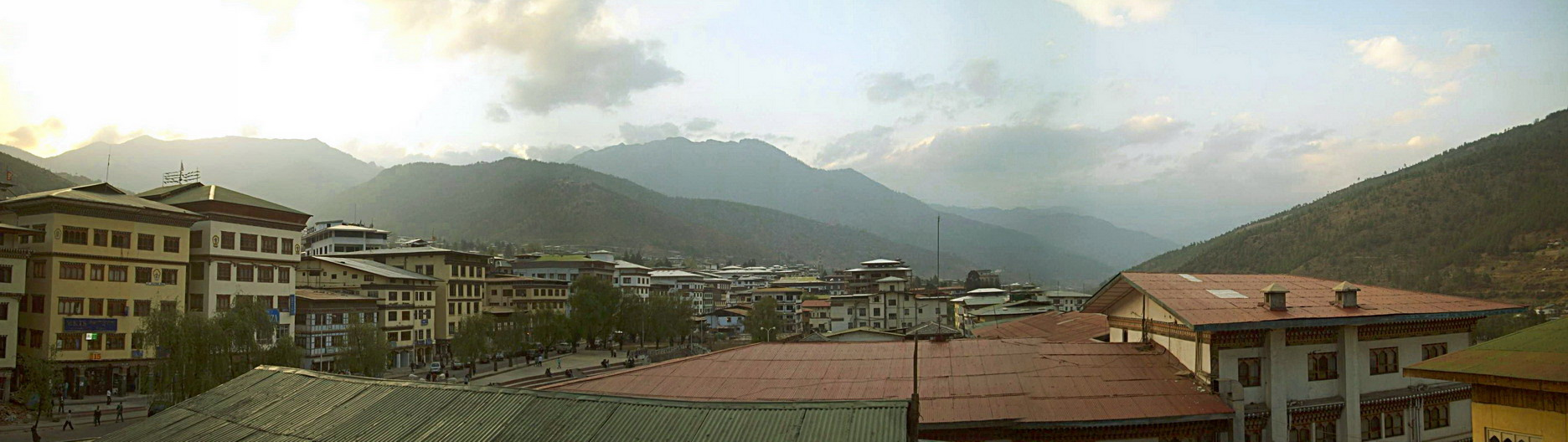 View of Thimphu, Bhutan